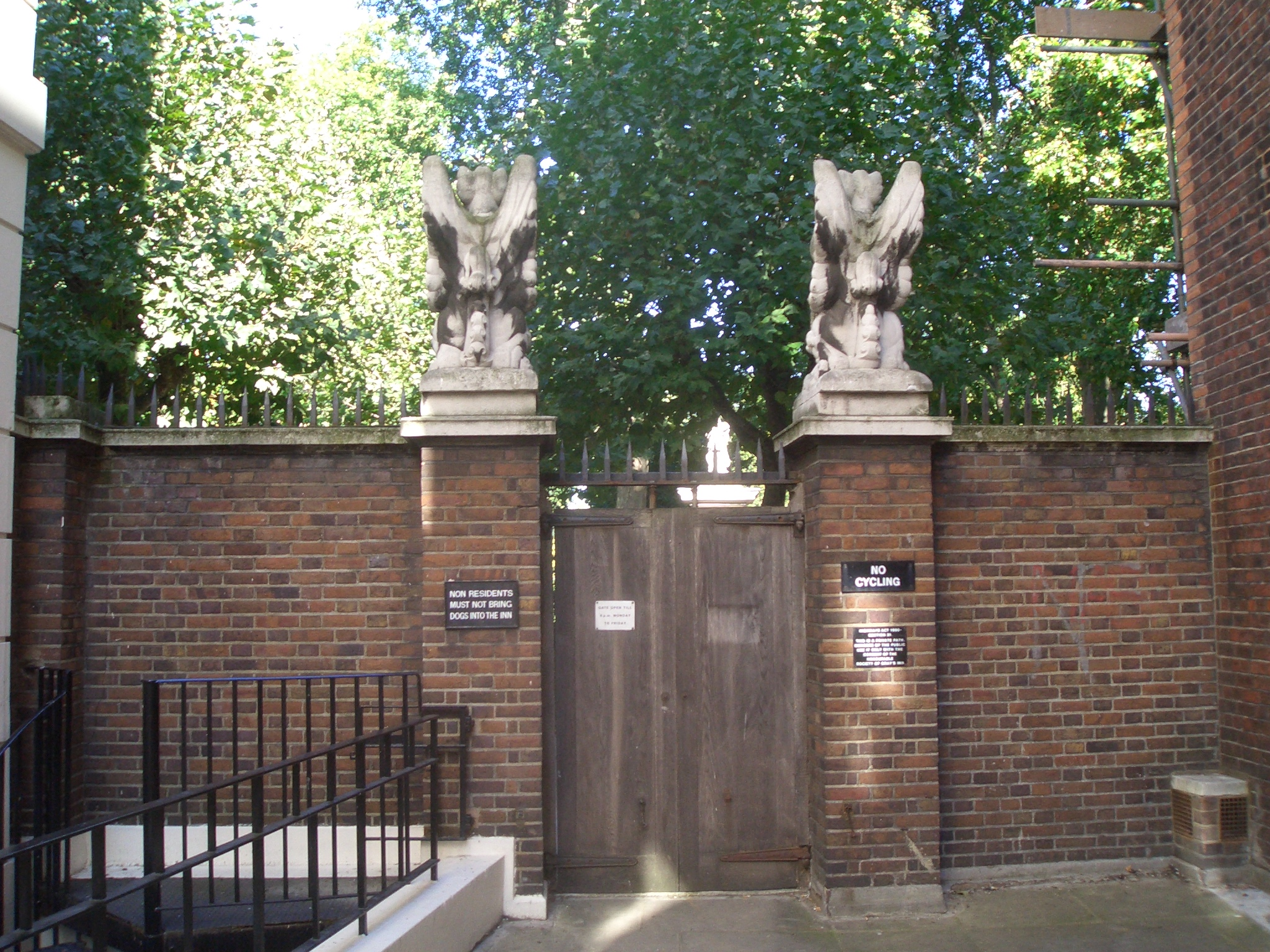 Photo of one of the entrances to Gray's Inn, taken 24 September 2005 by User:Edward.